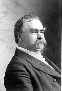 General William “Billy” Hicks Jackson (1835–1903), a Belle Meade Plantation owner, horse breeder, and brigadier-general in the Confederate States Army during the American Civil War.